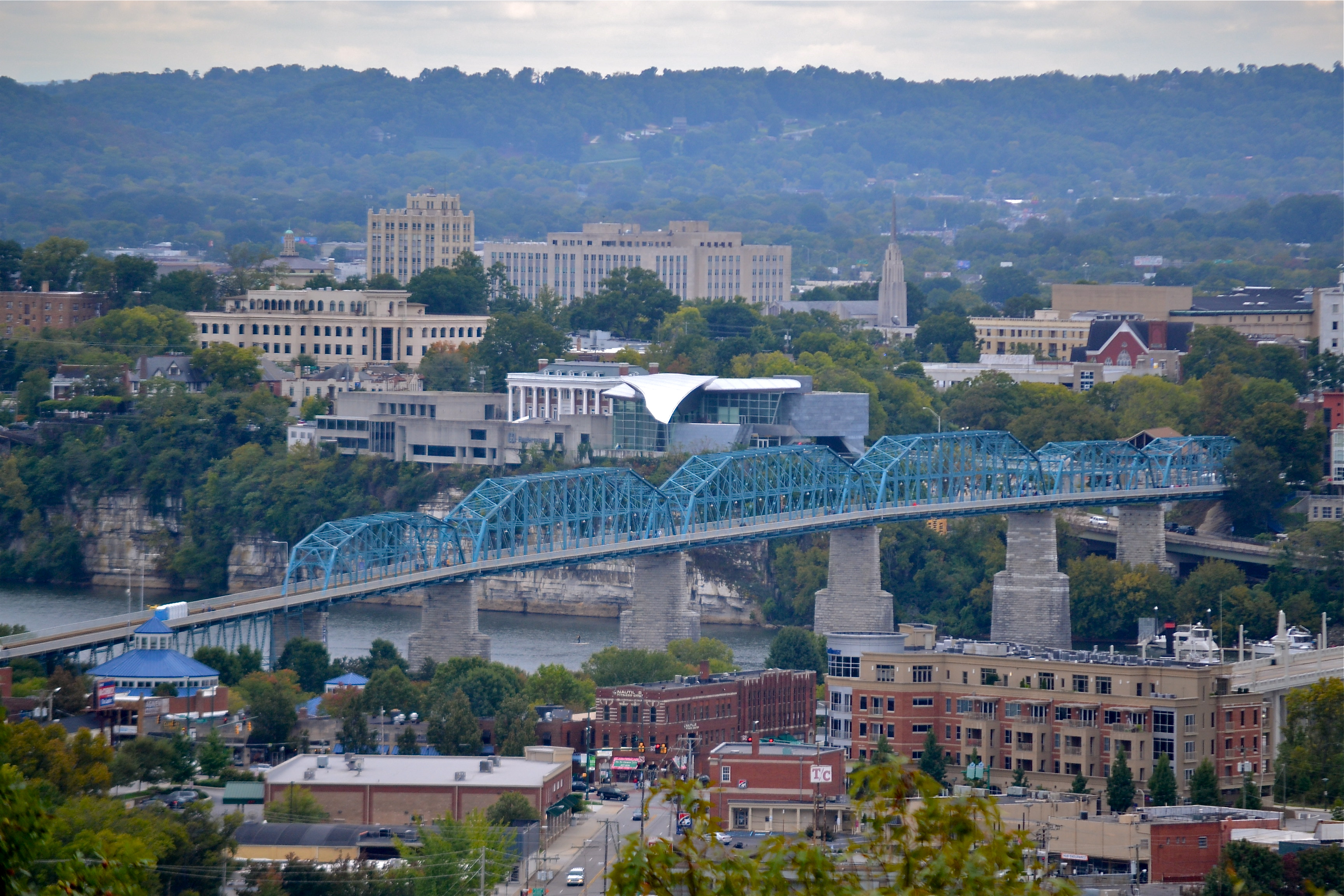 Chattanooga, Tennessee viewed from Stringer's Ridge.